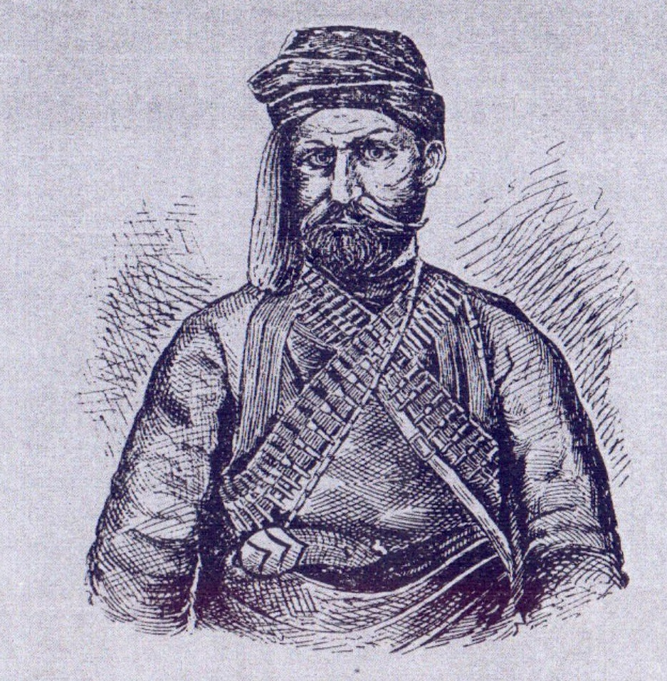 Buntovnik 3 - 1903-Stoimen Voyvoda